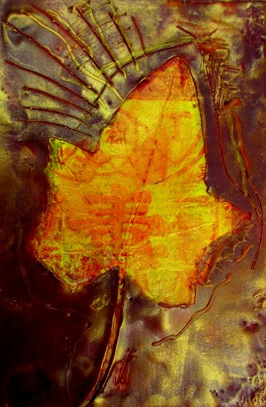 Autumn Leaf--Encaustic painting by Mitzi Humphrey